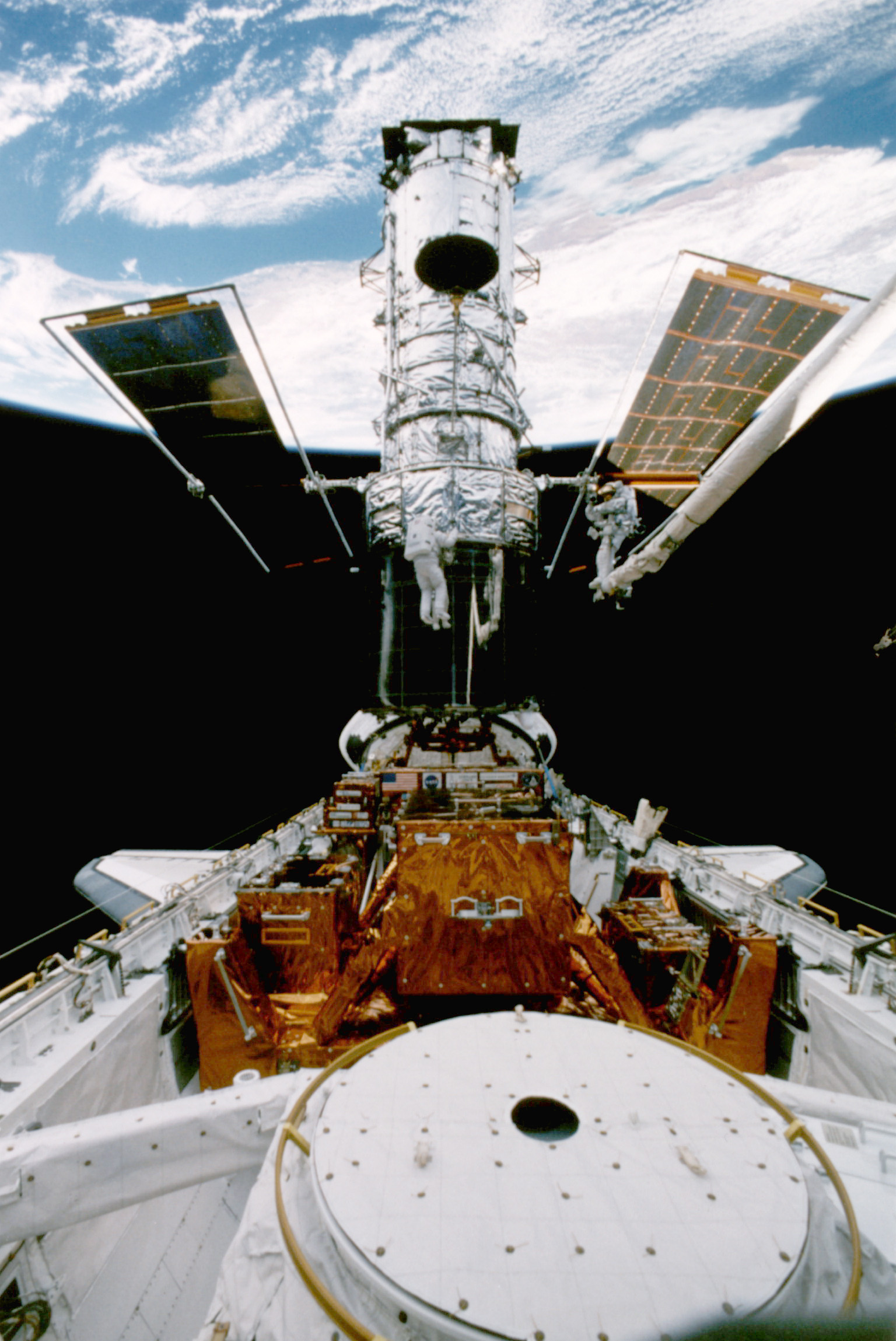 Hubble Space Telescope being serviced in Discovery's payload bay STS-82 EVA VIEW — This wide shot of the Hubble Space Telescope (HST) in the Space Shuttle Discovery’s cargo bay, backdropped against Australia, was taken during the fifth Extravehicular Activity (EVA) added to complete servicing of the orbiting observatory. Astronauts Steven L. Smith (center frame) and Mark C. Lee (on Remote Manipulator System (RMS) arm) are conducting a survey of the hand rails on HST. In foreground is the hatchway that connects to Discovery’s shirt sleeve environment of the crew cabin.